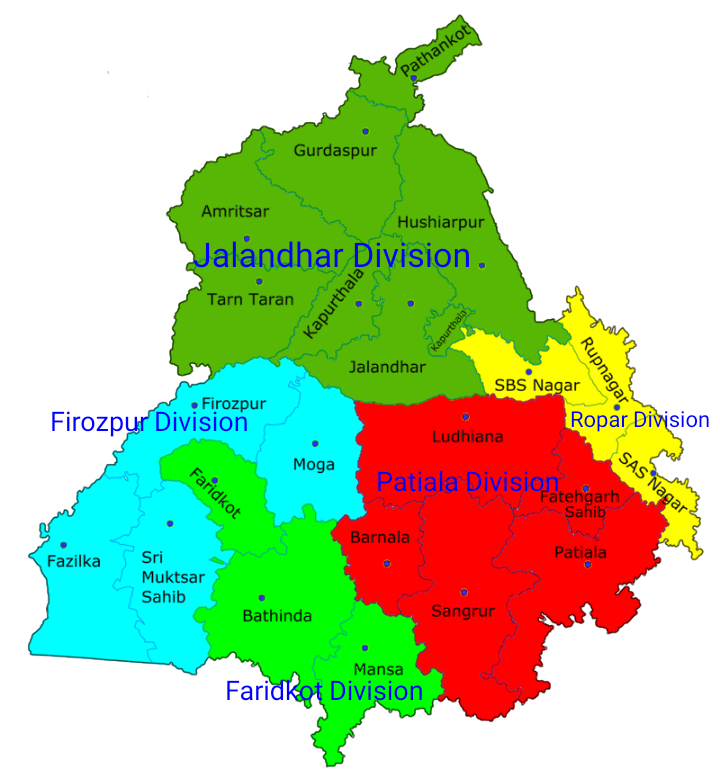 Map showing the administrative divisions of Punjab